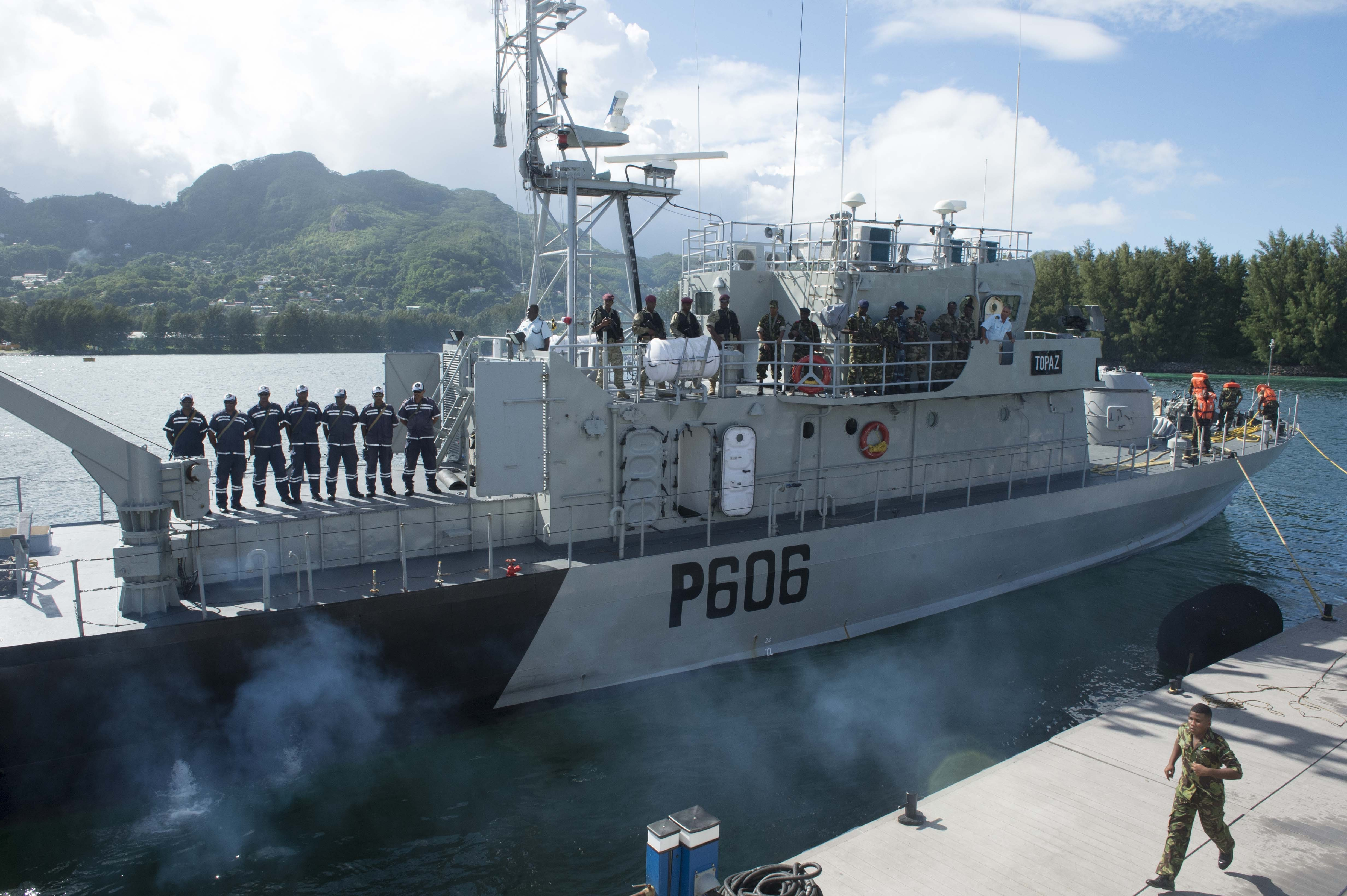 Seychelles Coast Guard vessel PS Topaz in 2013. Original caption: "Boarding team members from East African nations return after a visit, board, search and seizure (VBSS) exercise of Cutlass Express 2013. Exercise Cutlass Express 2013 is a multinational maritime exercise in the waters off East Africa to improve cooperation, tactical expertise and information sharing among East African maritime forces in order to increase maritime safety and security in the region. (U.S. Navy photo by Lieutenant Cheryl A. Collins/Released.)" virin = 131115-N-FB085-003